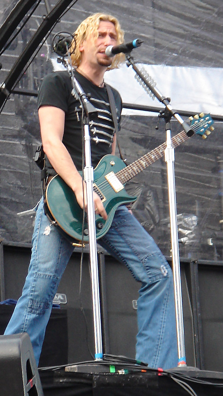 Chad Kroeger on stage with Nickelback in Dublin May 2006